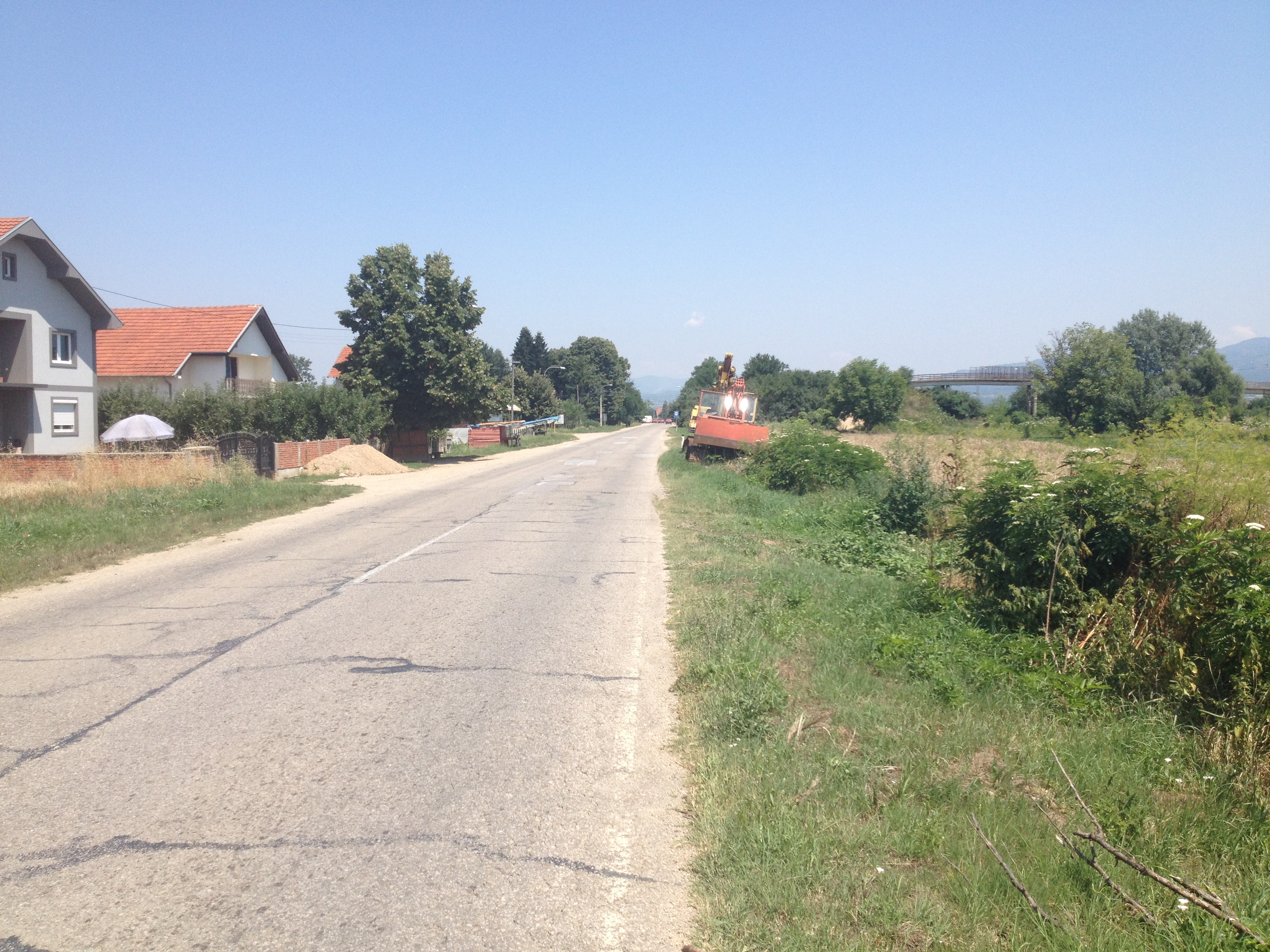 Živkovo Српски (ћирилица): Живково